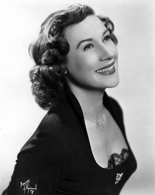 Photo of television personality Arlene Francis.